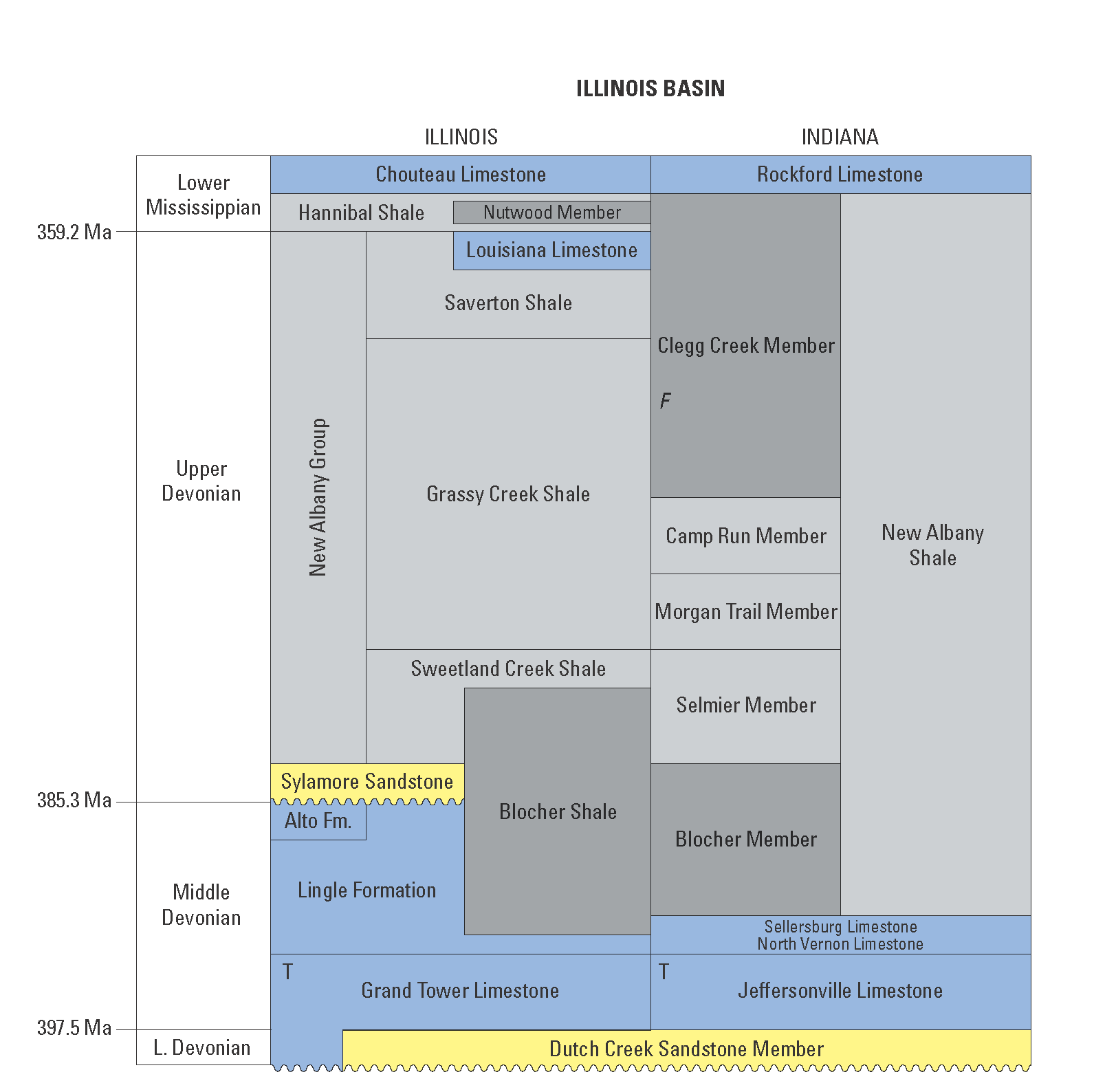 Stratigraphic diagram of the New Albany shale, Illinois Basin